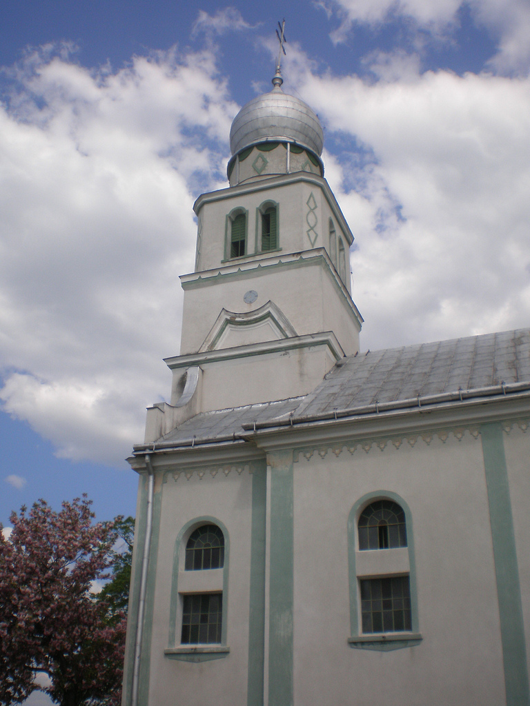 kalnik church